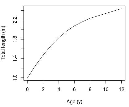 Growth curve for raggedtooth shark